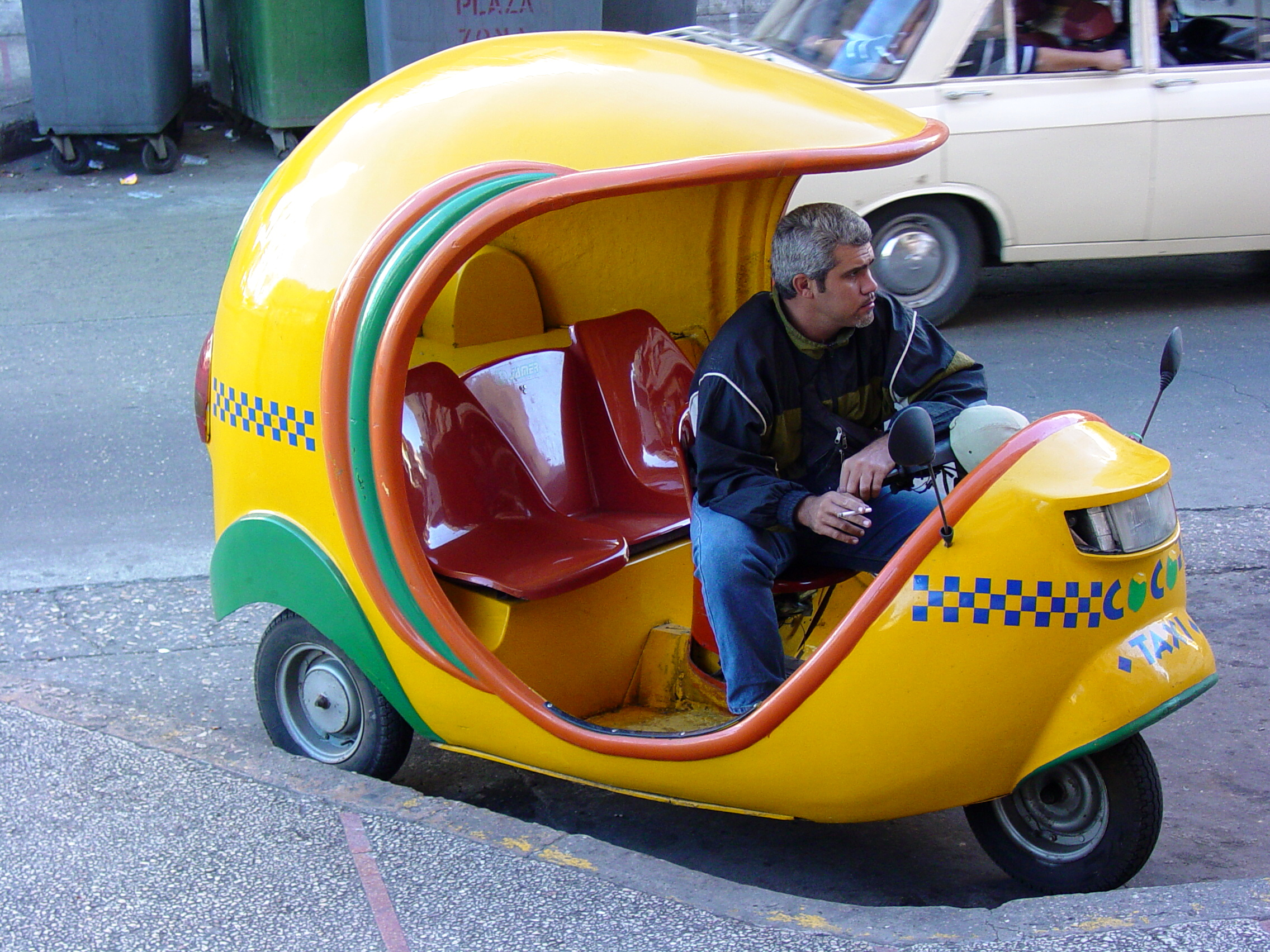 Coco-taxi driver, Vedado, Havana, Cuba. January 2003.